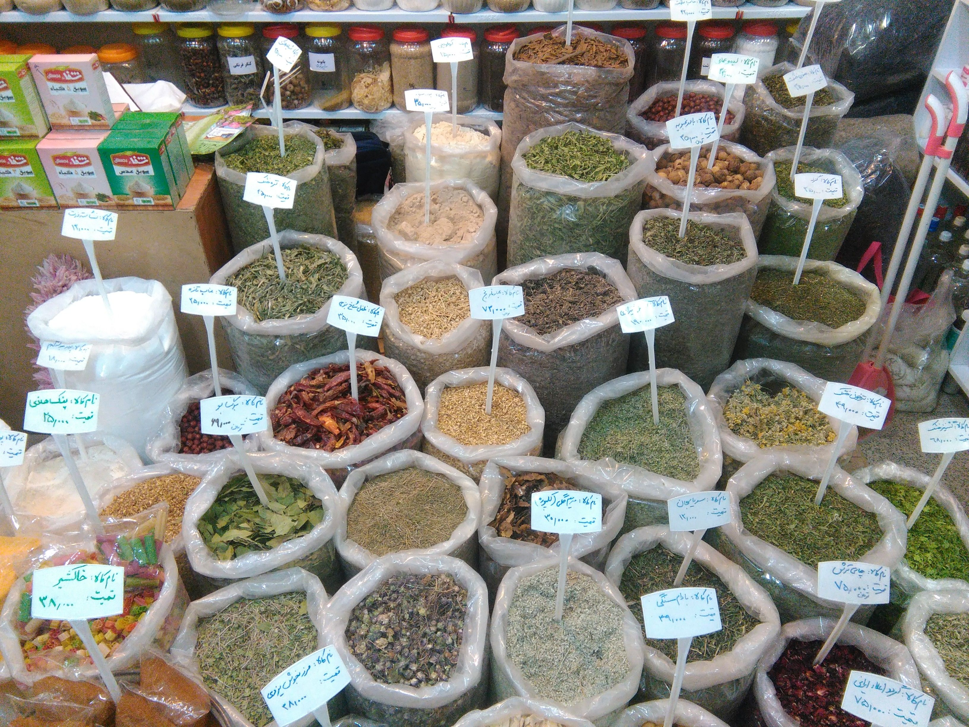 An iran Herbarge Spice Shop in the Esfahan